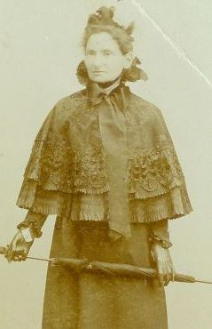 Amy Geertruida de Leeuw a.k.a. Geertruida Carelsen (1843-1938). Photo made in 1899 or prior to that date. (Letterkundig Museum NL)